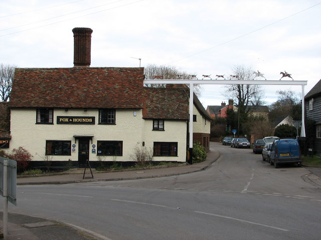 The Fox & Hounds Pub - Barley, Hertfordshire. This pub was built in the 17th century. Its very interesting gantry sign is one of only two remaining in Hertfordshire.